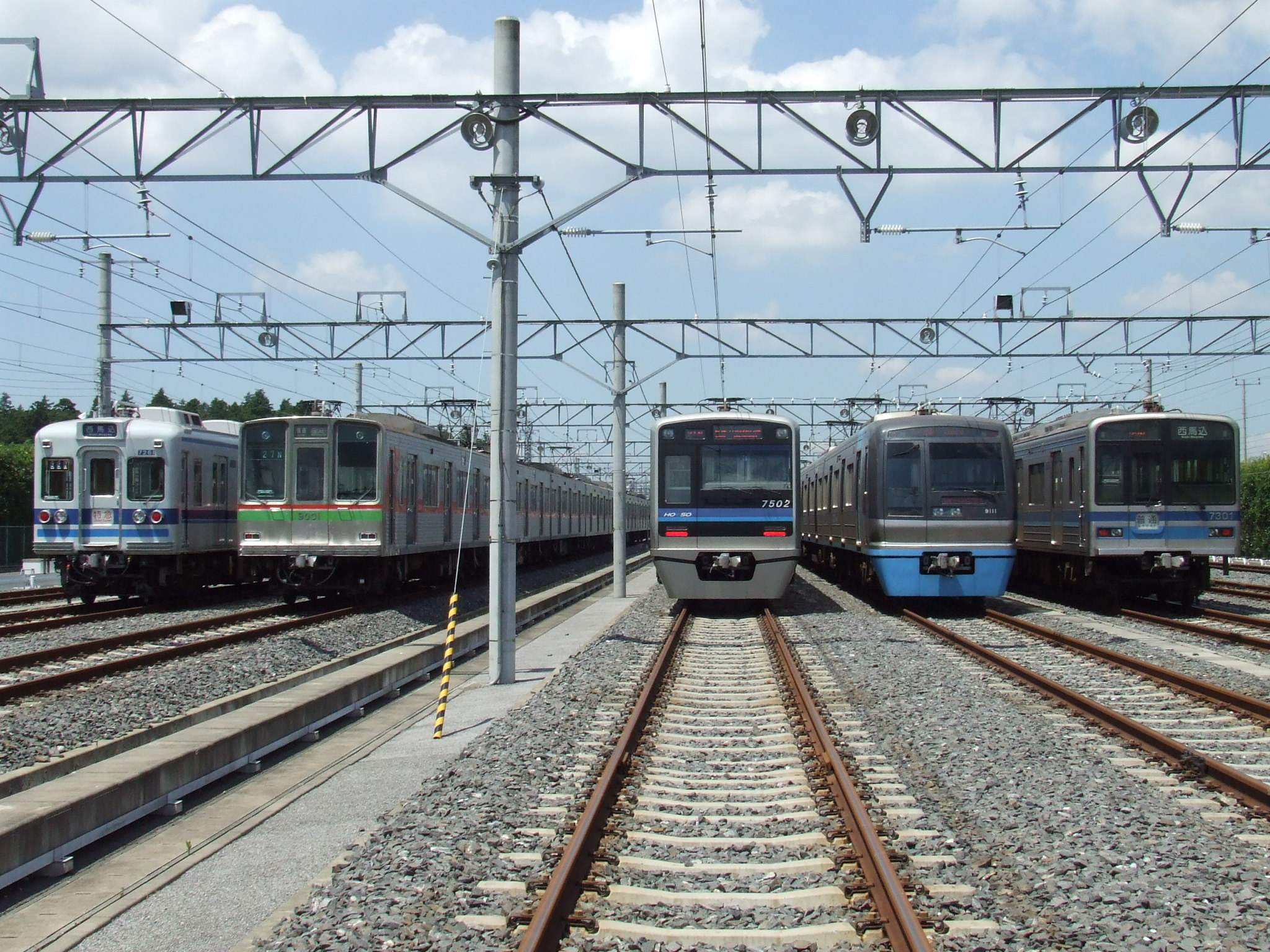 Hokuso Railway's Trains, Hokuso Railway, Japan